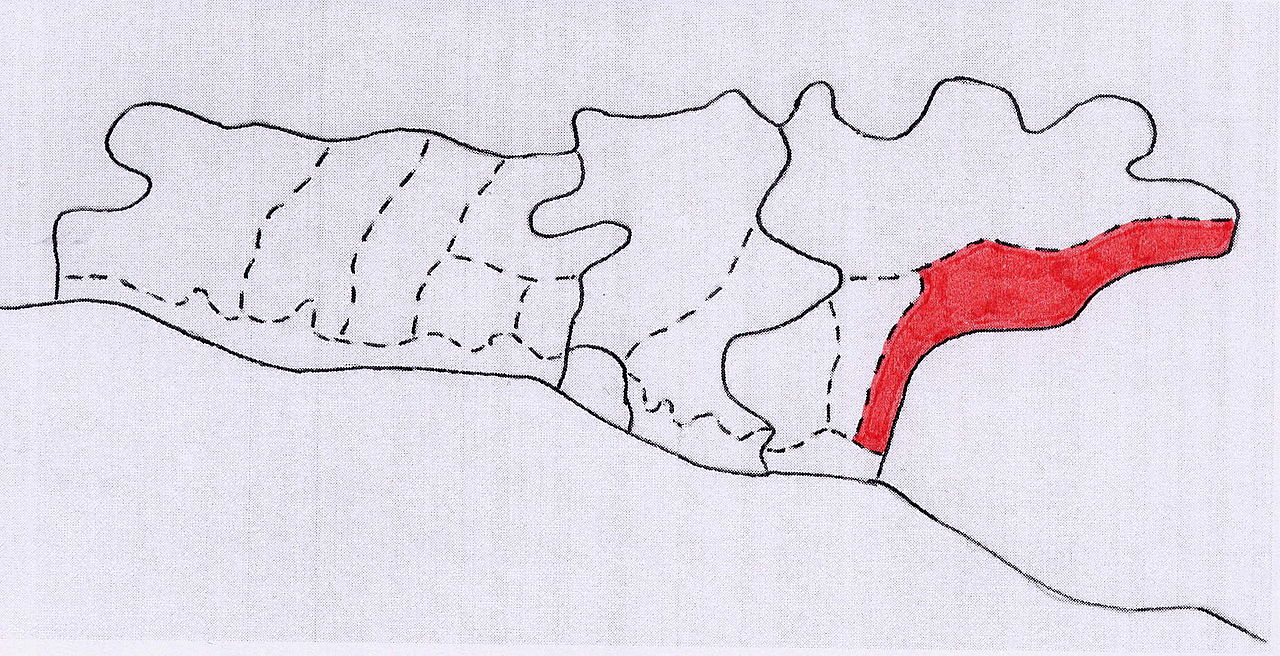 Nizheshilovski rural okrug in Sochi City Okrug, Krasnodar Krai, Russia